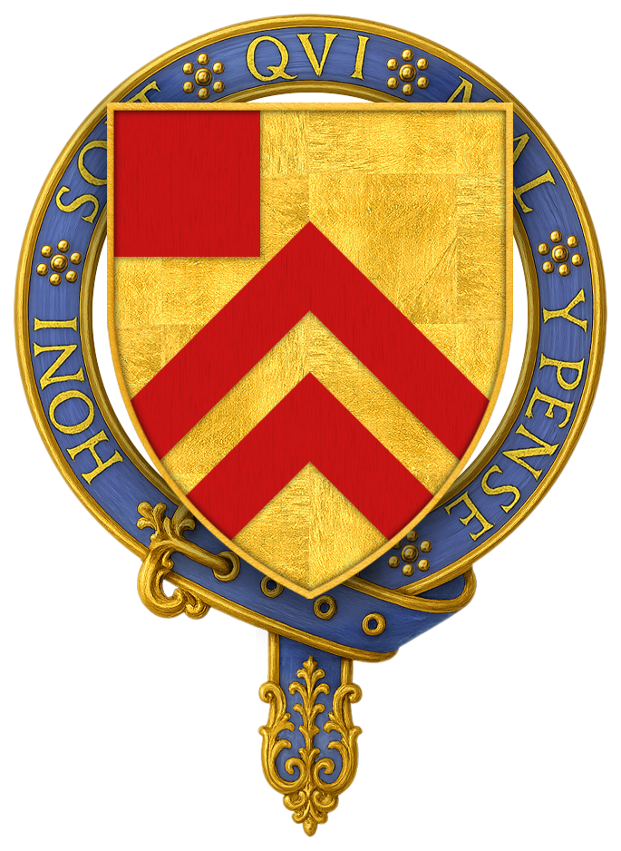 Sir Thomas Kiriell, KG FOSTER, Joseph, Some Feudal Coats of Arms from Heraldic Rolls 1298-1418, London; & Oxford: James Parker & Co., 1902. “ Criol, Sir Thomas, K.G. - (H. VI. Roll) bore, or two chevronels (a chevron et demye) and a quarter gules; Atkinson Roll… ” BURKE, Sir Bernard, The General Armory of England, Scotland, Ireland, and Wales; Comprising a Registry of Armorial Bearings from the Earliest to the Present Time, London: Harrison & Sons, 1884. “ Crioll (Croxton). Ar. two chev. and a canton gu. ”